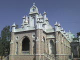 Chapel in Stmarys higher Secondary school dindigul